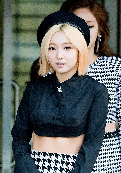 Min at 2014 K-Pop Awards red carpet